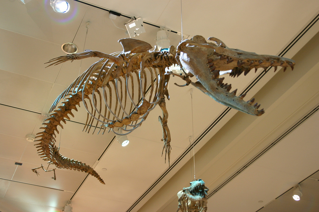 A skeleton of Dorudon atrox, a Eocene cetacean